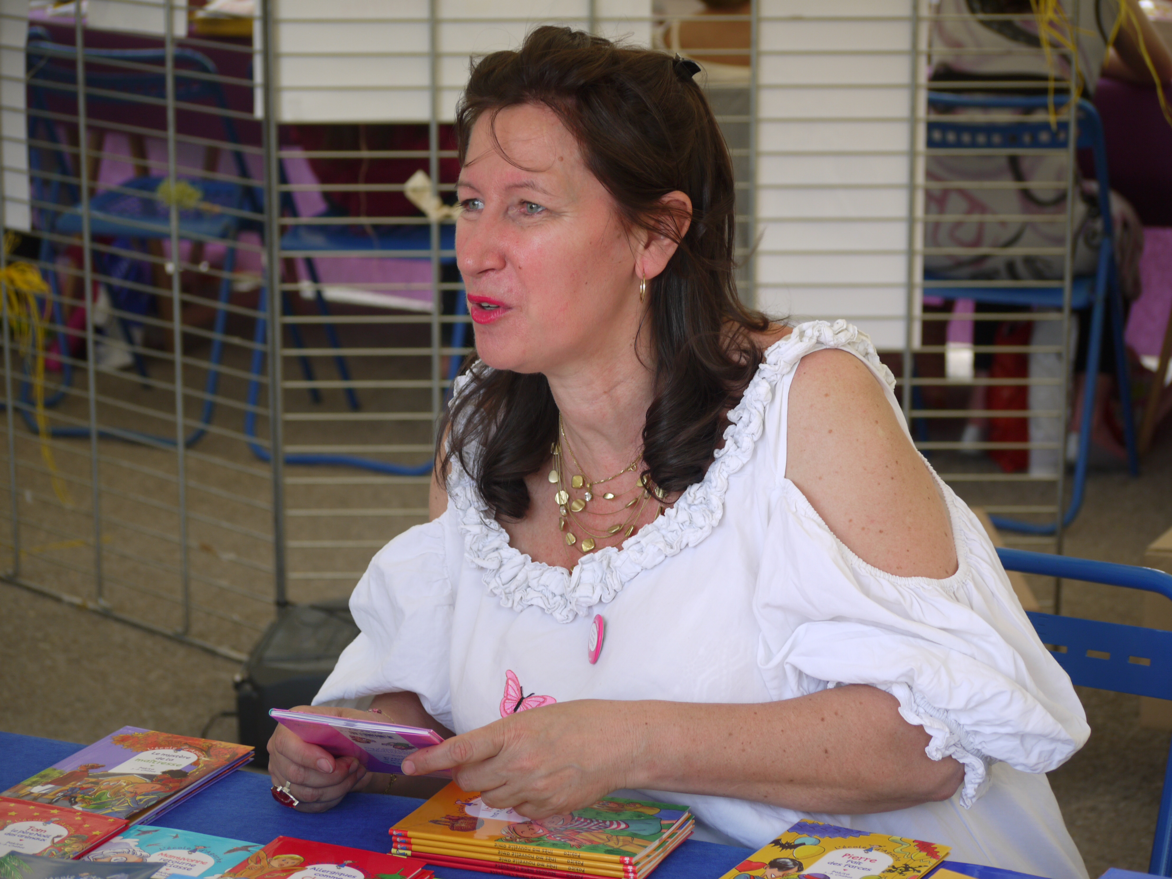 Photograph taken during the 2009 edition of the 'Comédie du Livre' of Montpellier, France. Personality rights warningAlthough this work is freely licensed or in the public domain, the person(s) shown may have rights that legally restrict certain re-uses unless those depicted consent to such uses. In these cases, a model release or other evidence of consent could protect you from infringement claims.